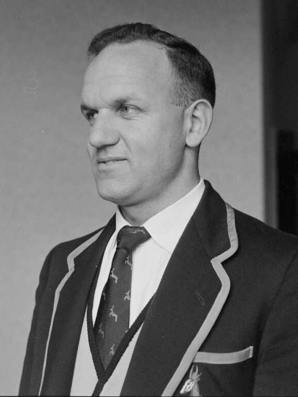 John Ulrich Buchler, fullback, Springbok rugby team during tour of New Zealand